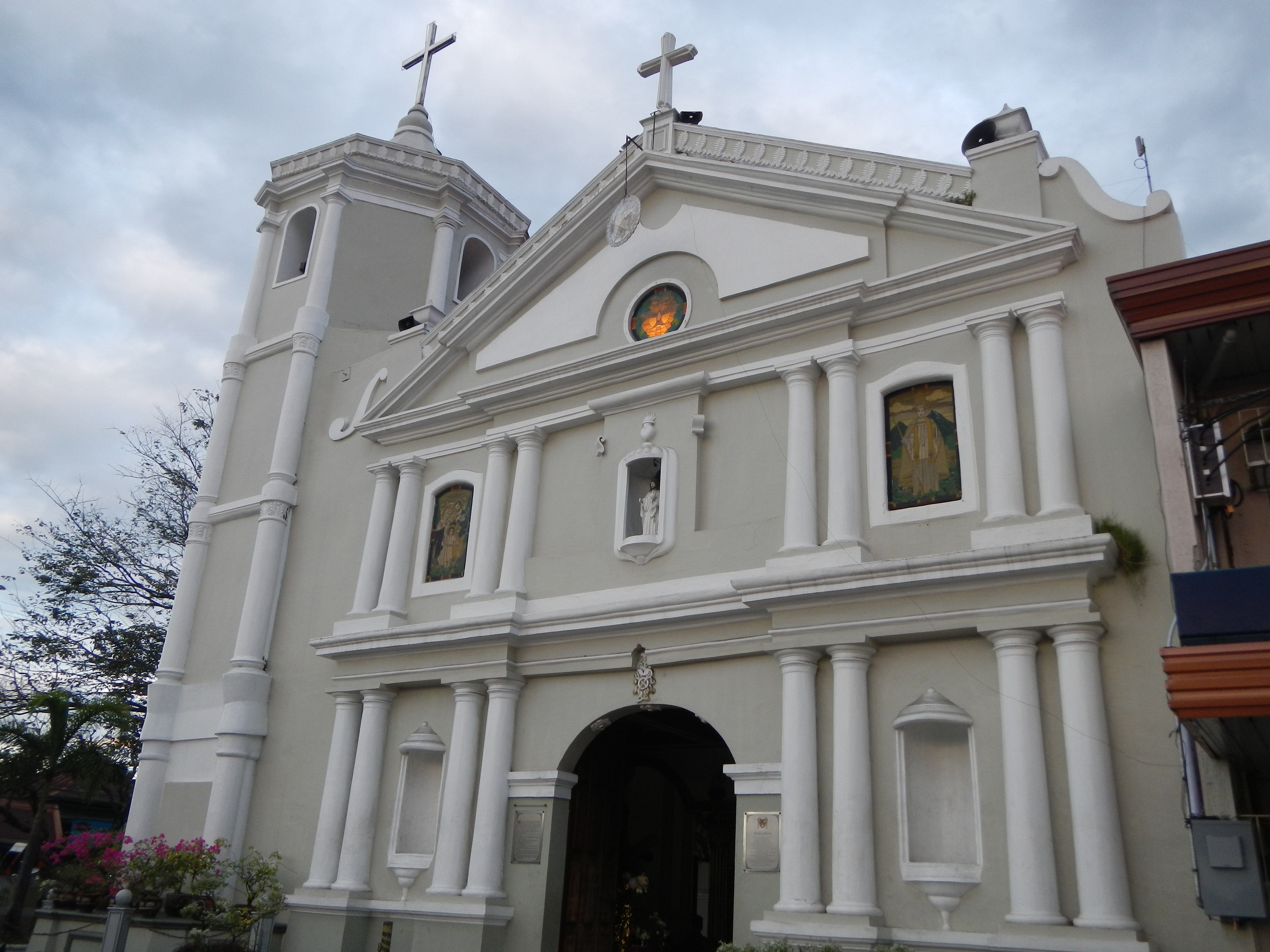 Guiguinto Church Roman Catholic Diocese of Malolos under Parish Priest Fr. Rey Rivera replacing Fr. Flormonico Cadiz who was transferred to Norzagaray October 31, 1607 founded, beside Saint Martin de Porres Catholic School (Guiguinto, Bulacan) by the Guiguinto Bridge-River, Deepening P 43,662 million K00 34+08 Barangay Poblacion beside Ilang-Ilang, beside Tabang, Guiguinto, Bulacan, Bulacan province.